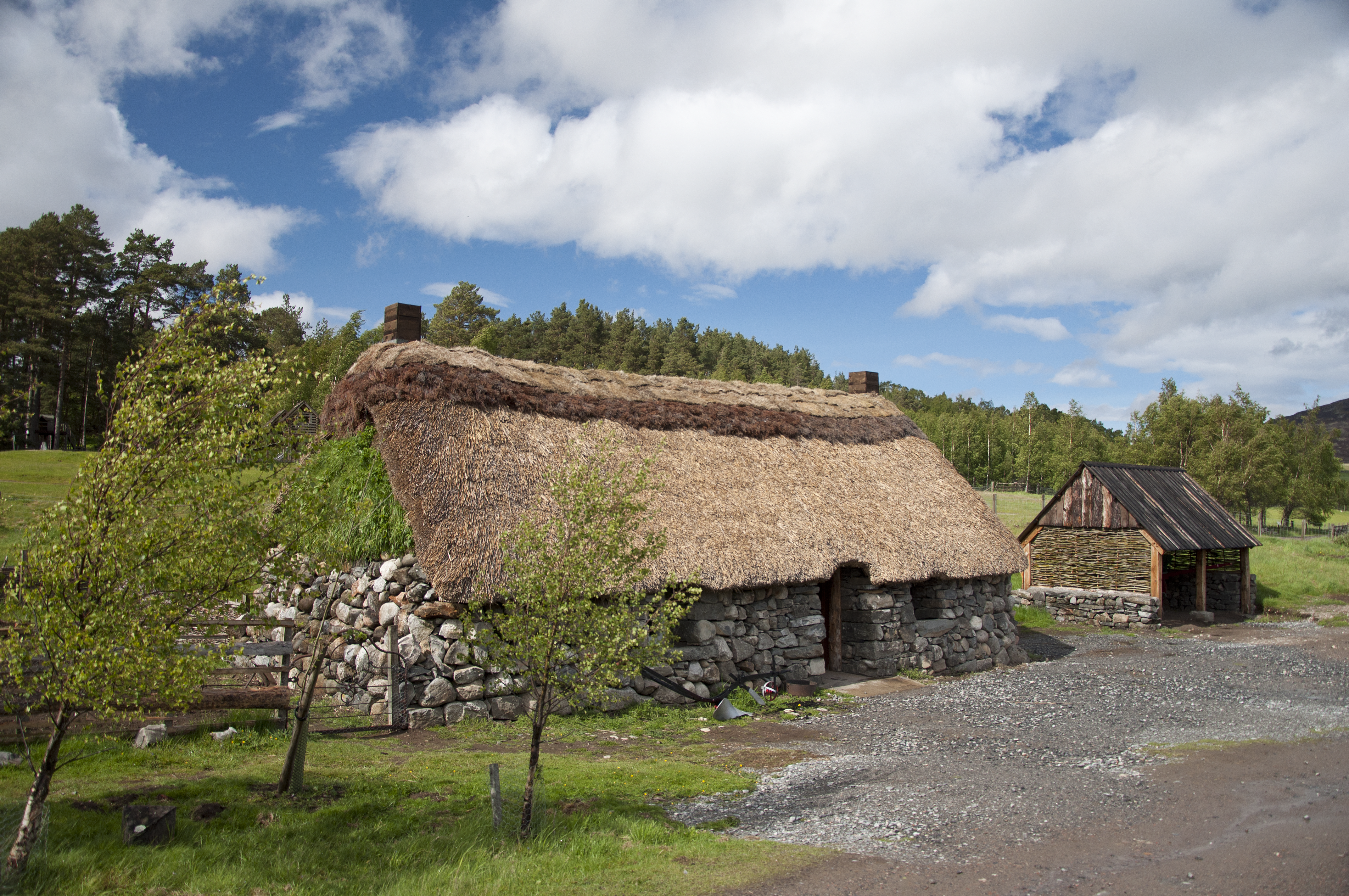 Highland Cottage at the Highland Folk Museum, Newtonmore, Scotland